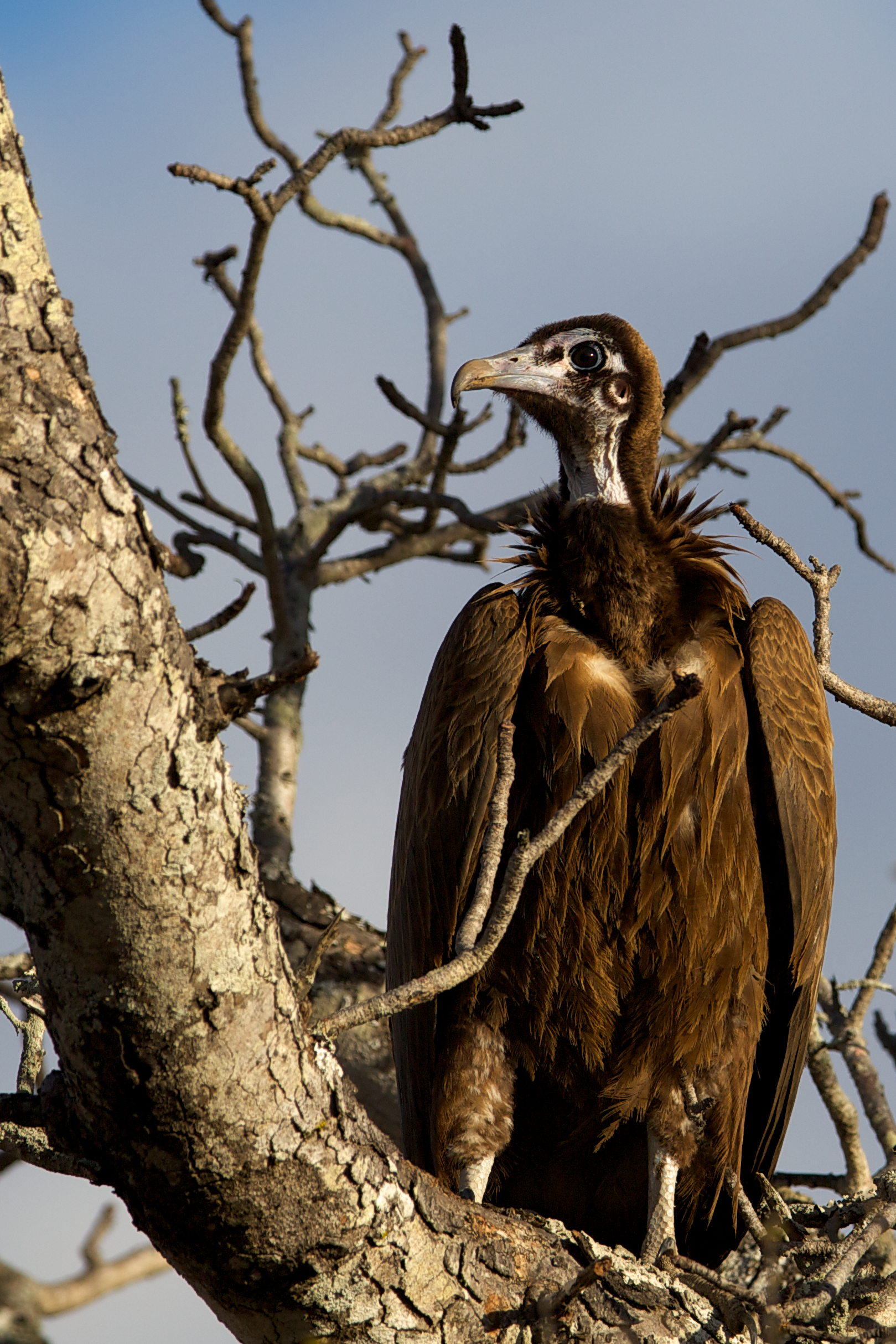 A Hooded Vulture perching in a tree near at Sabi Sand Reserve, Mpumalanga province, South Africa.